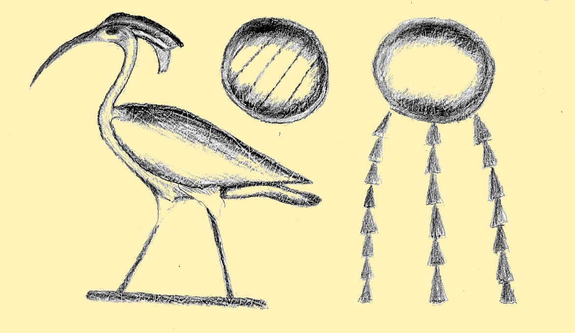 Self-made freehand drawing based on a BirdLife International image of an Egyptian hieroglyph. ca 3000BC